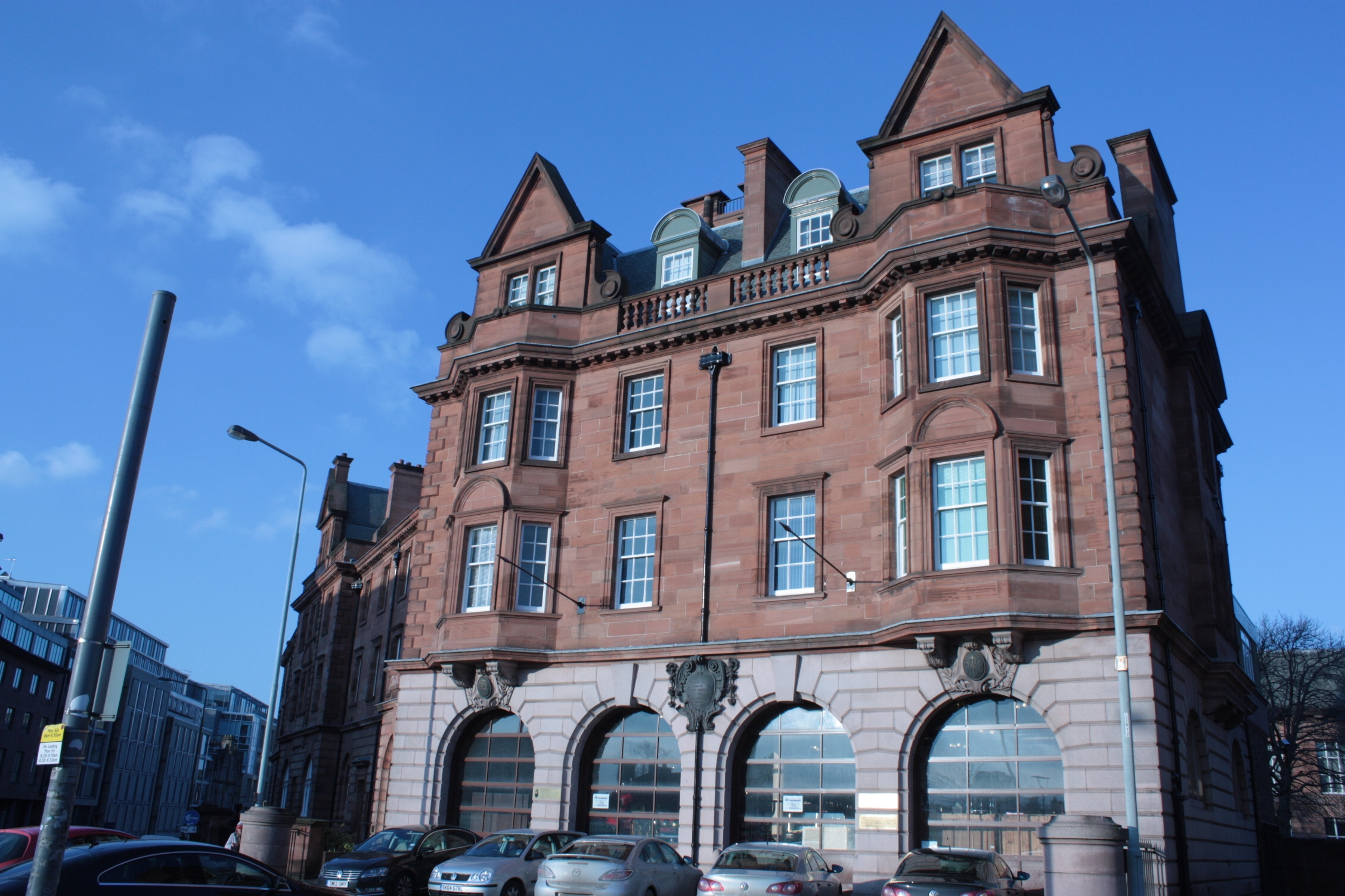 Fire station on Lauriston Place (now a fire engine museum)